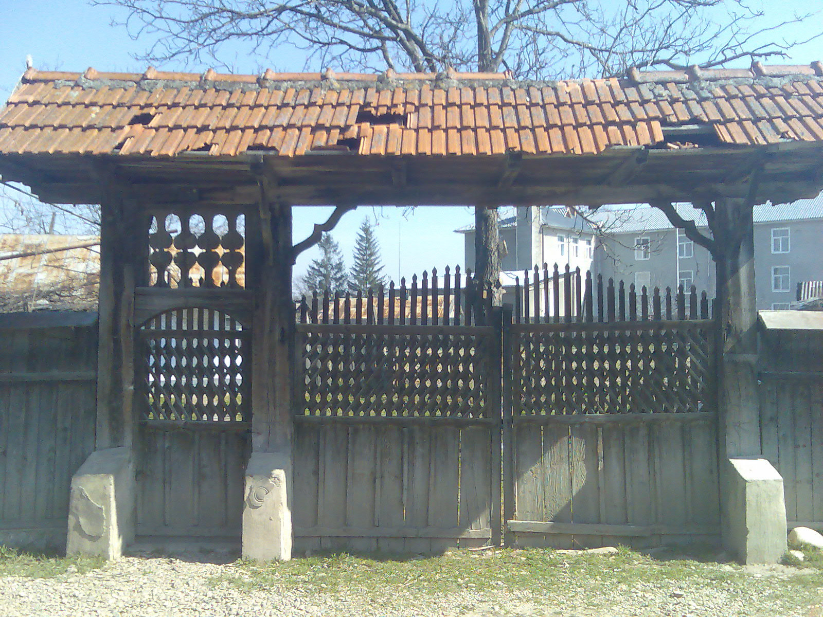 Poarta familiei Cosăcea Ion, făcută la data de 14 Noiembrie 1936